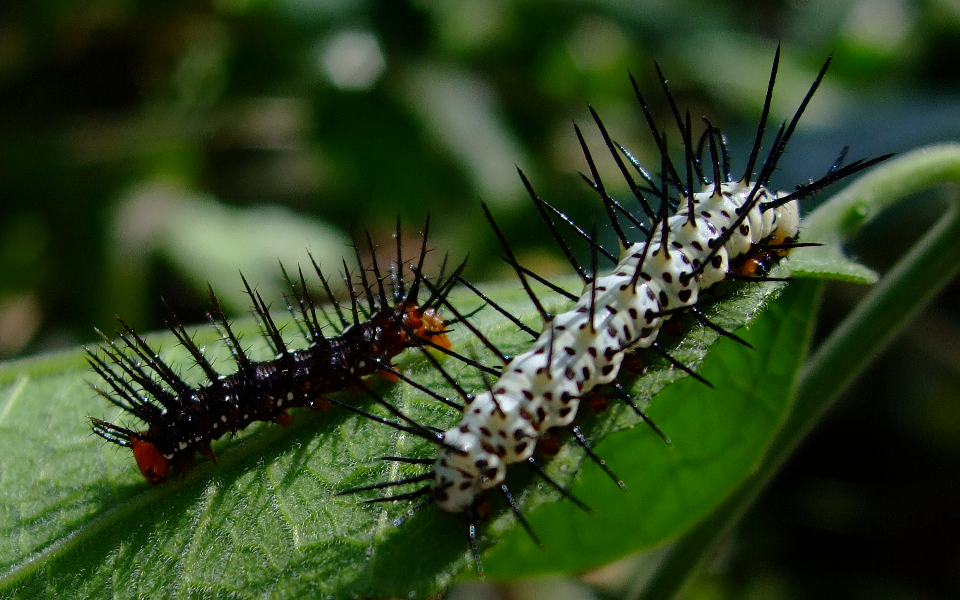 Two caterpillars of the Heliconiinae family. The black and orange one is a Dryas julia (Julia Butterfly). The white and black one is a Heliconius charitonius (Zebra Longwing).